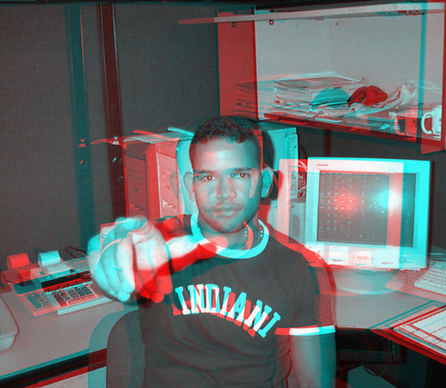 Anaglyph version of Image:Imagen stereo 3b.jpg